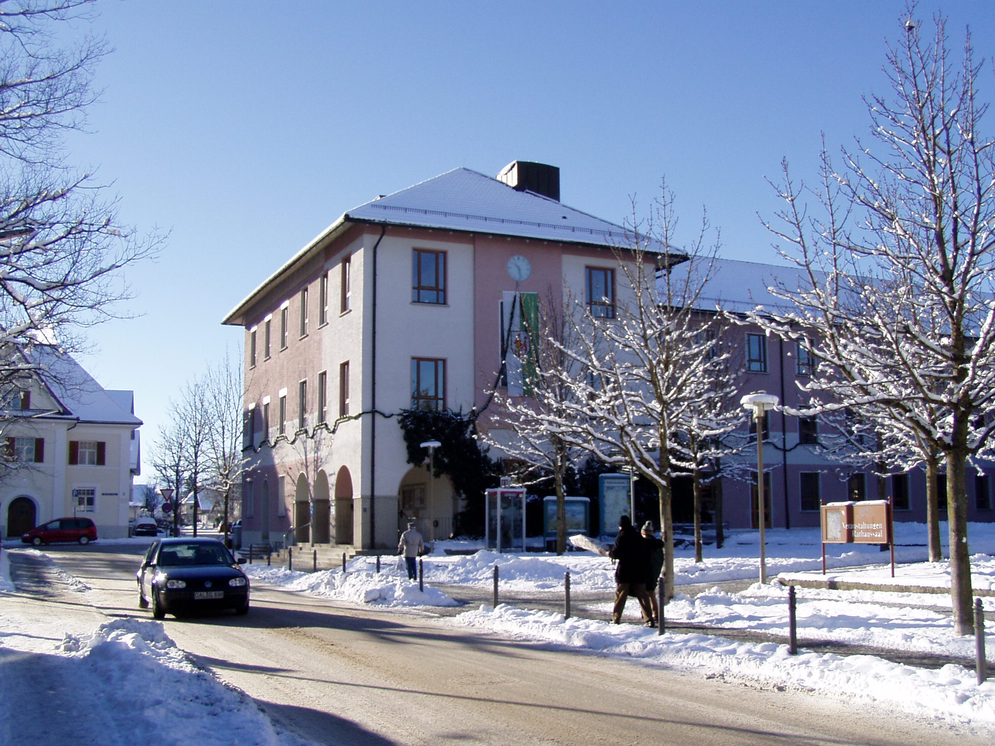 Rathaus in Marktoberdorf